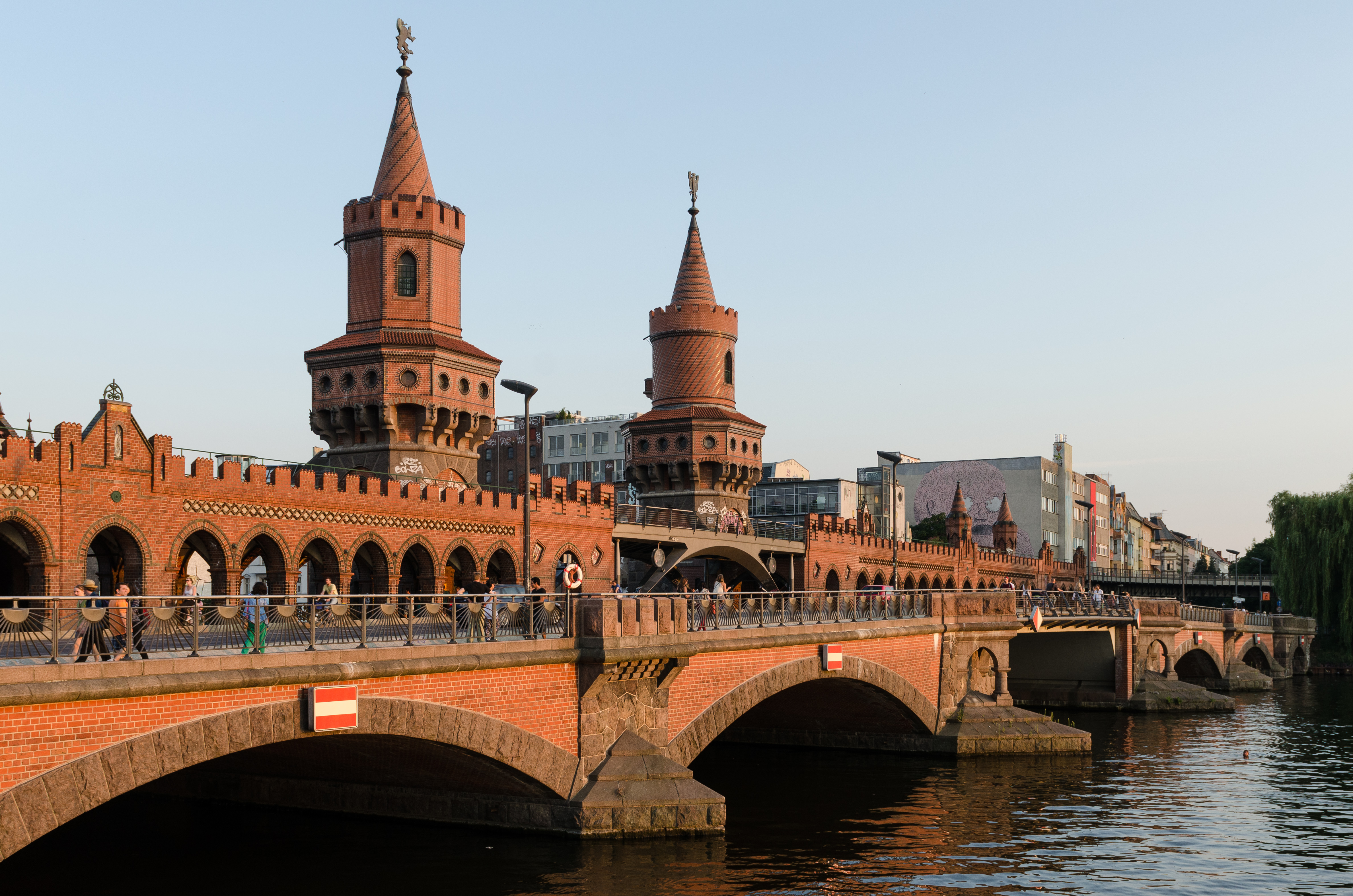 The Oberbaum Bridge as seen from north, during sunset